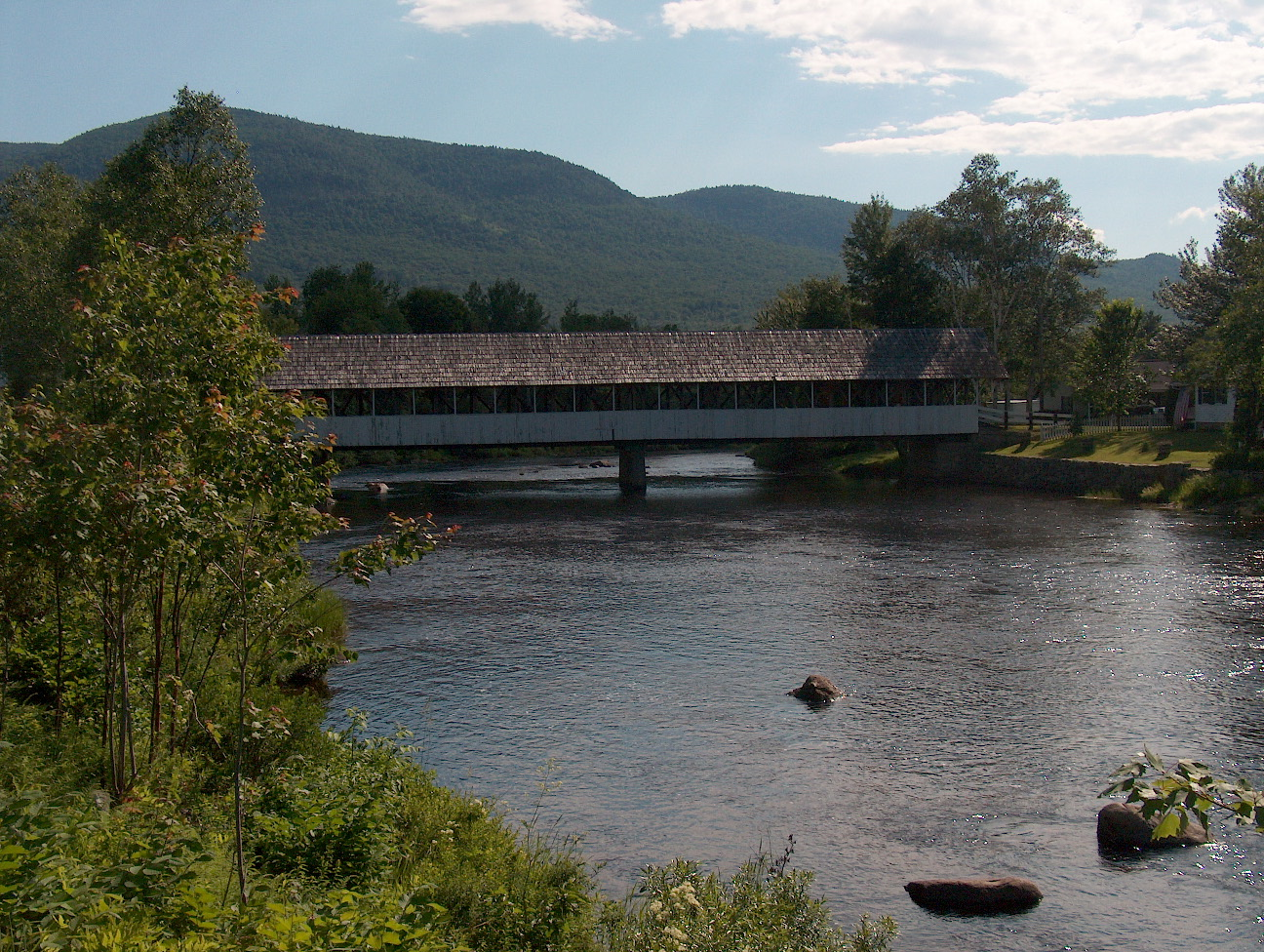 The Upper Ammonoosuc River flowing past the town of Stark, New Hampshire. Photo by Ken Gallager.